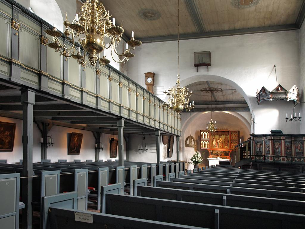 Keitum (Sylt), Slesvic-Holstein (Germany): church,interior, photo 2008